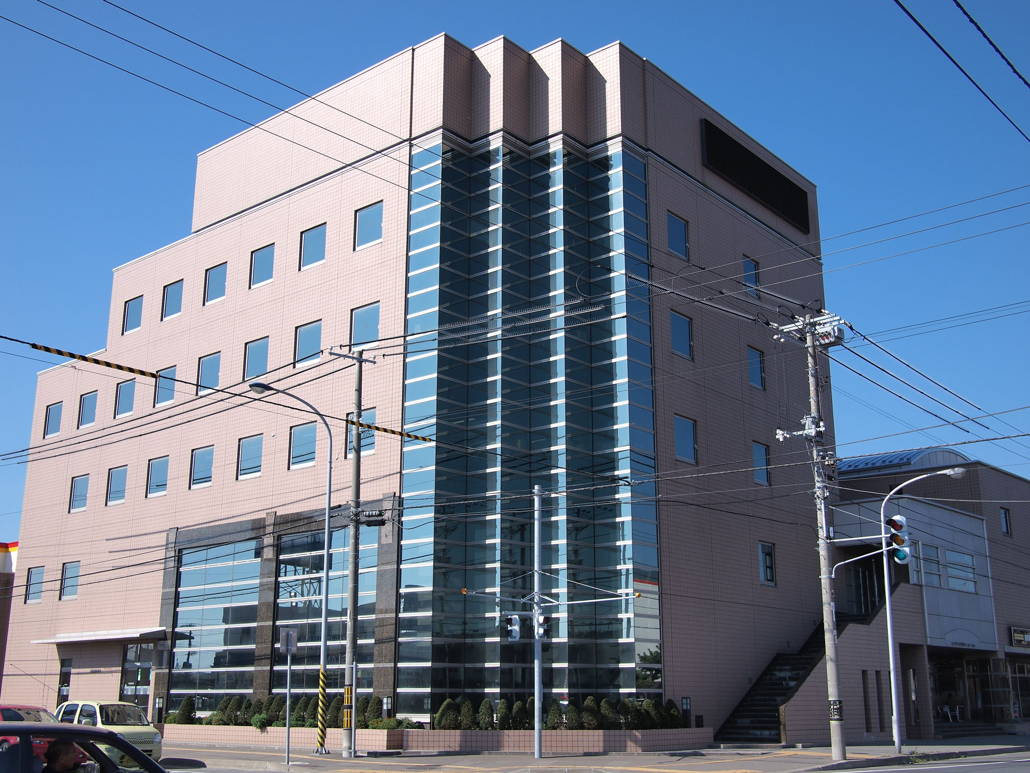 Date Shinkin Bank, Date, Hokkaido, Japan